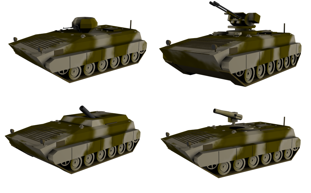 Boragh, Irani APC